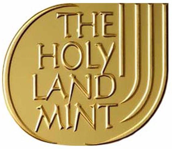 The Holyland Mint Logo